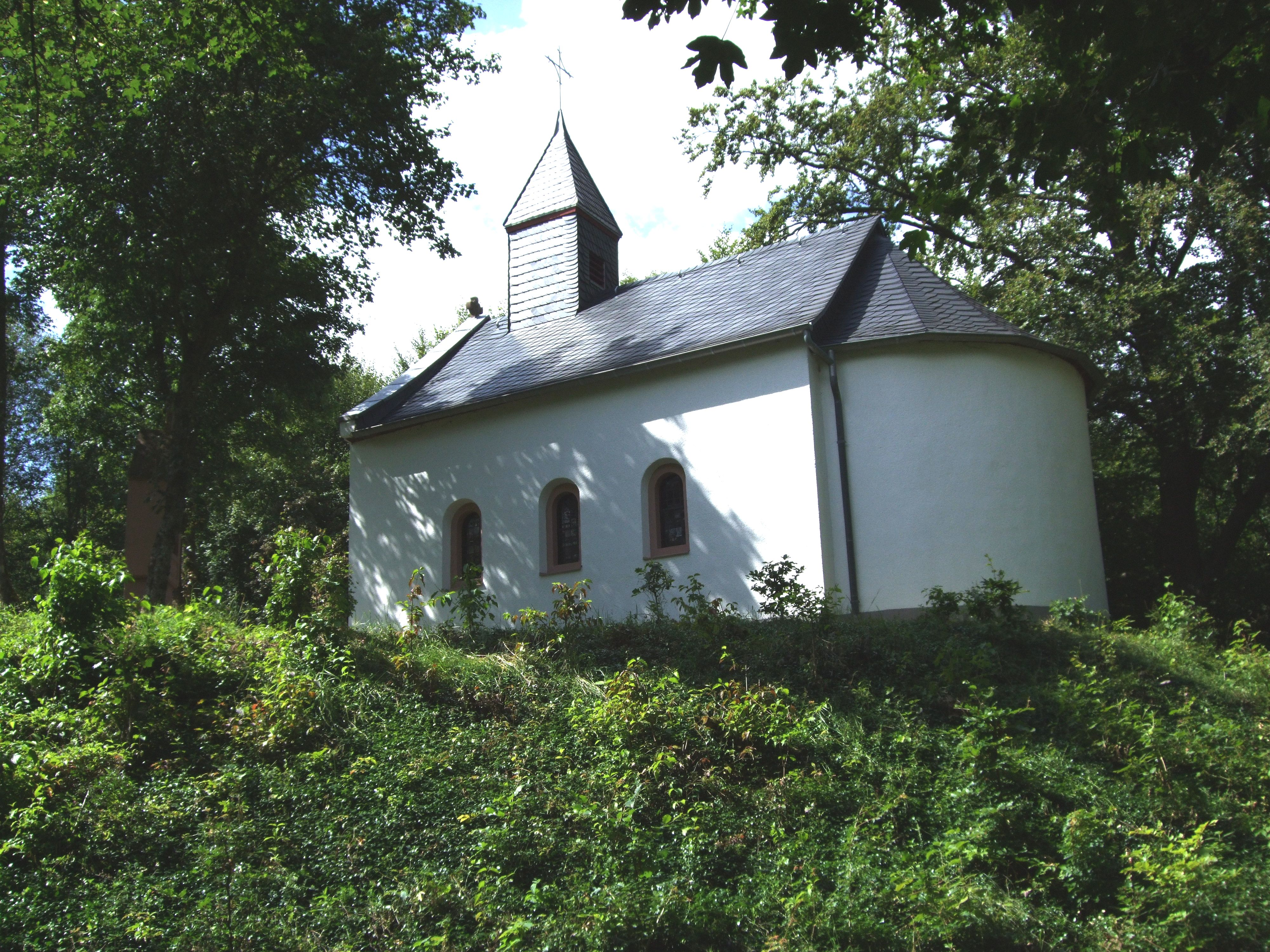 Heyerbergkapelle in Borler, Germany